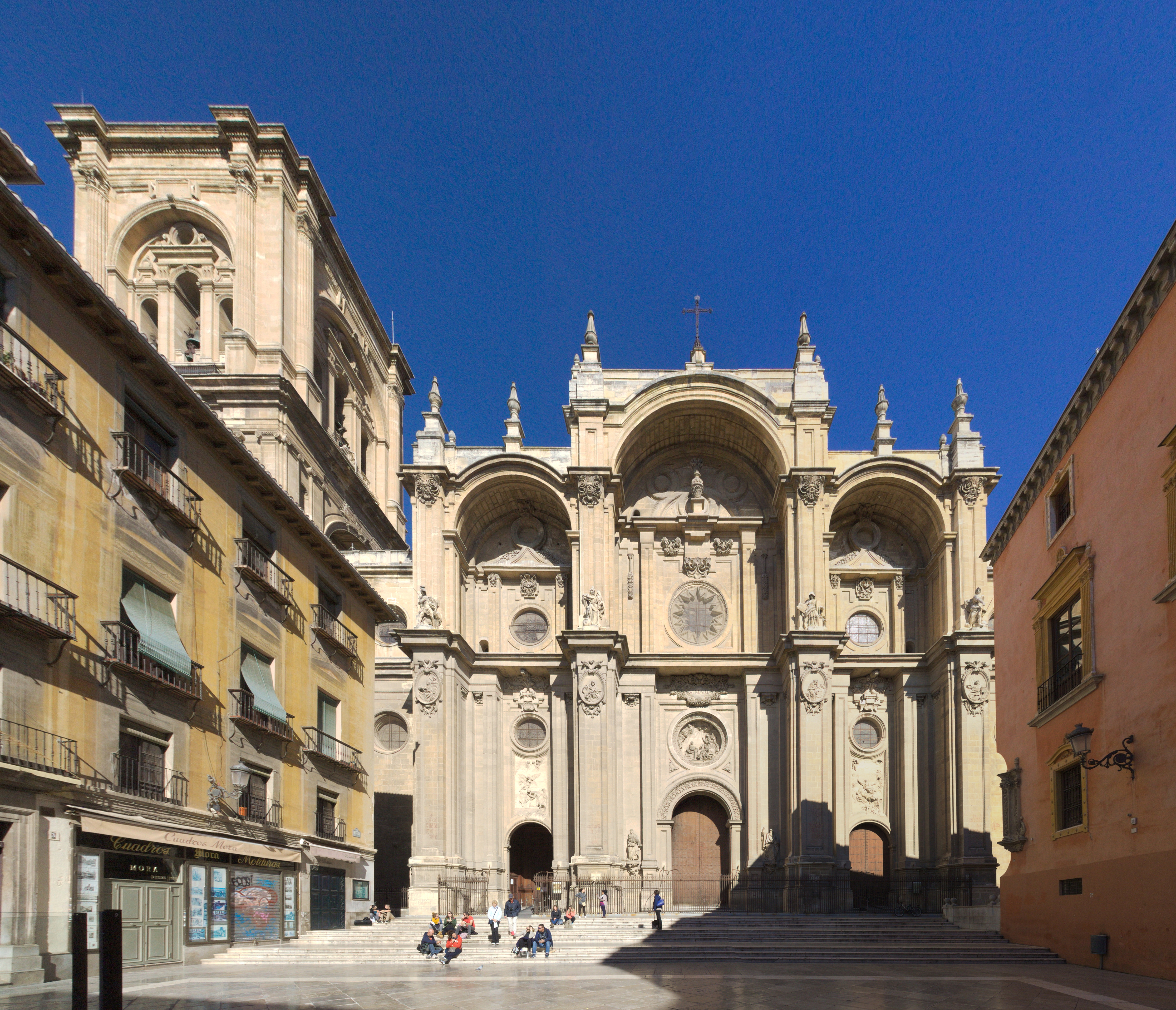 Granada - Front side of cathedral